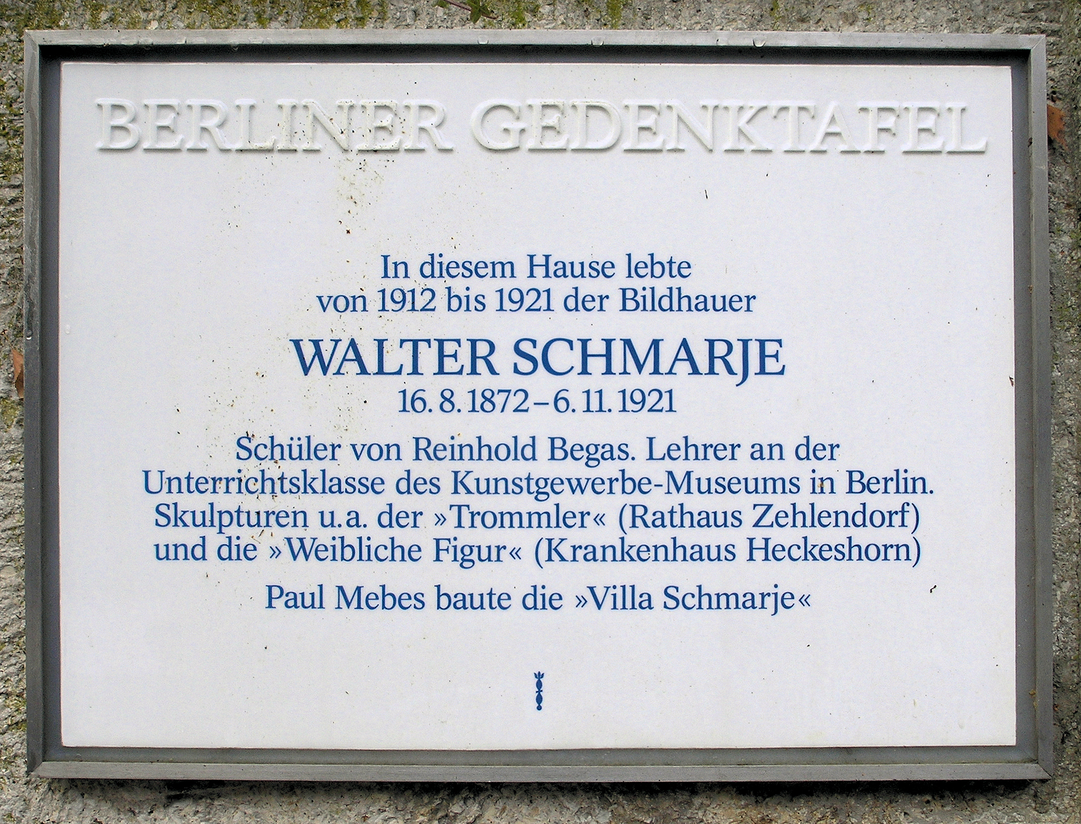 Berlin memorial plaque, Walther Schmarje, Milinowskistraße 12, Berlin-Zehlendorf, Germany Koordinate:52°26′23″N 13°15′36″E / 52.43972°N 13.26°E